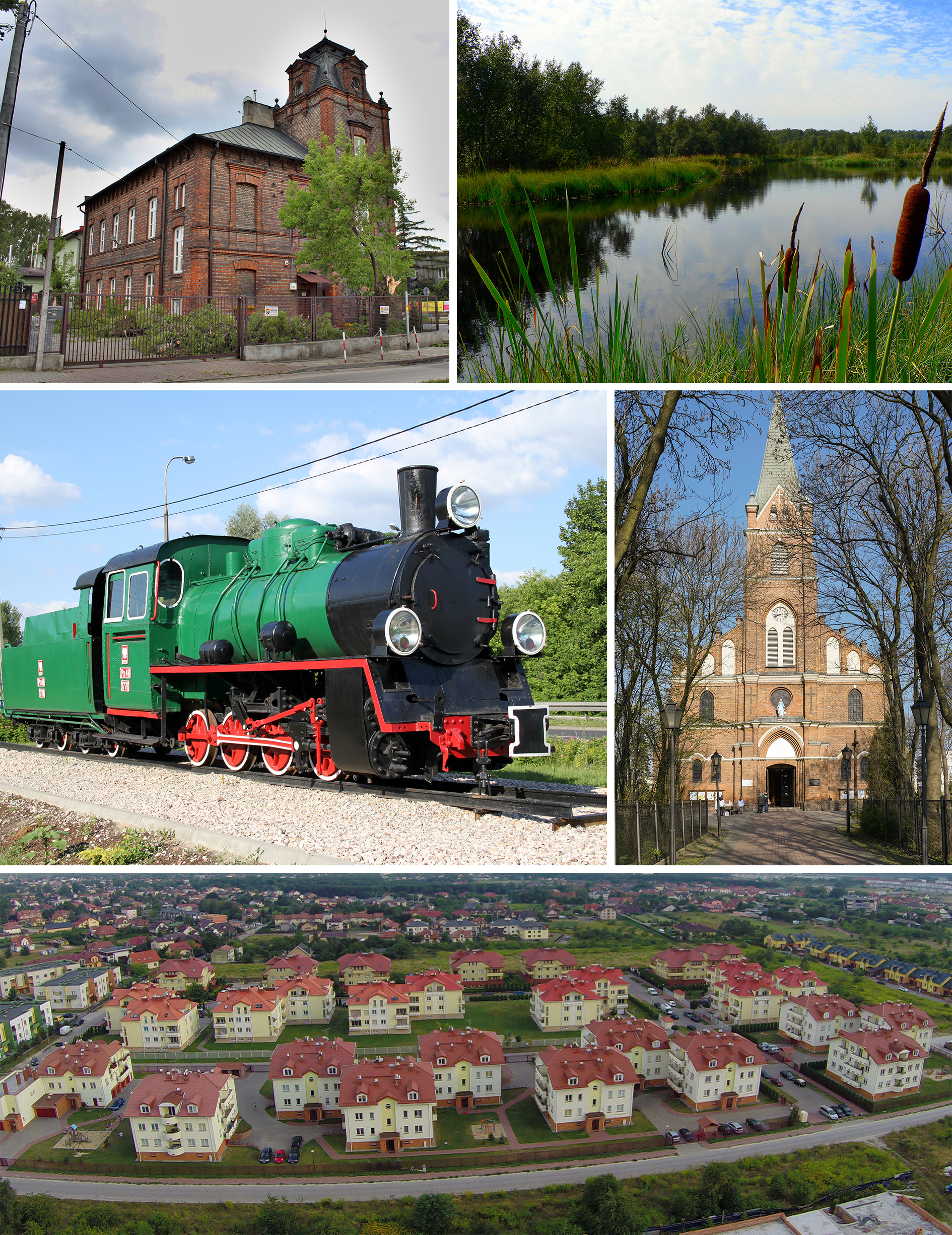 Collage of views of Marki, Poland